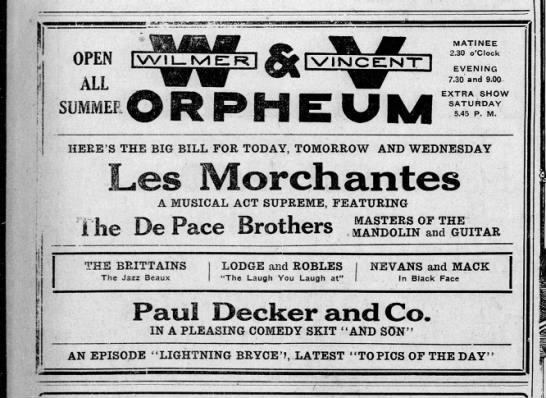 Advertisement from The Morning Call, 12 Apr 1920, Mon, Page 10. The De Pace brothers were at this time part of Les Marchantes.